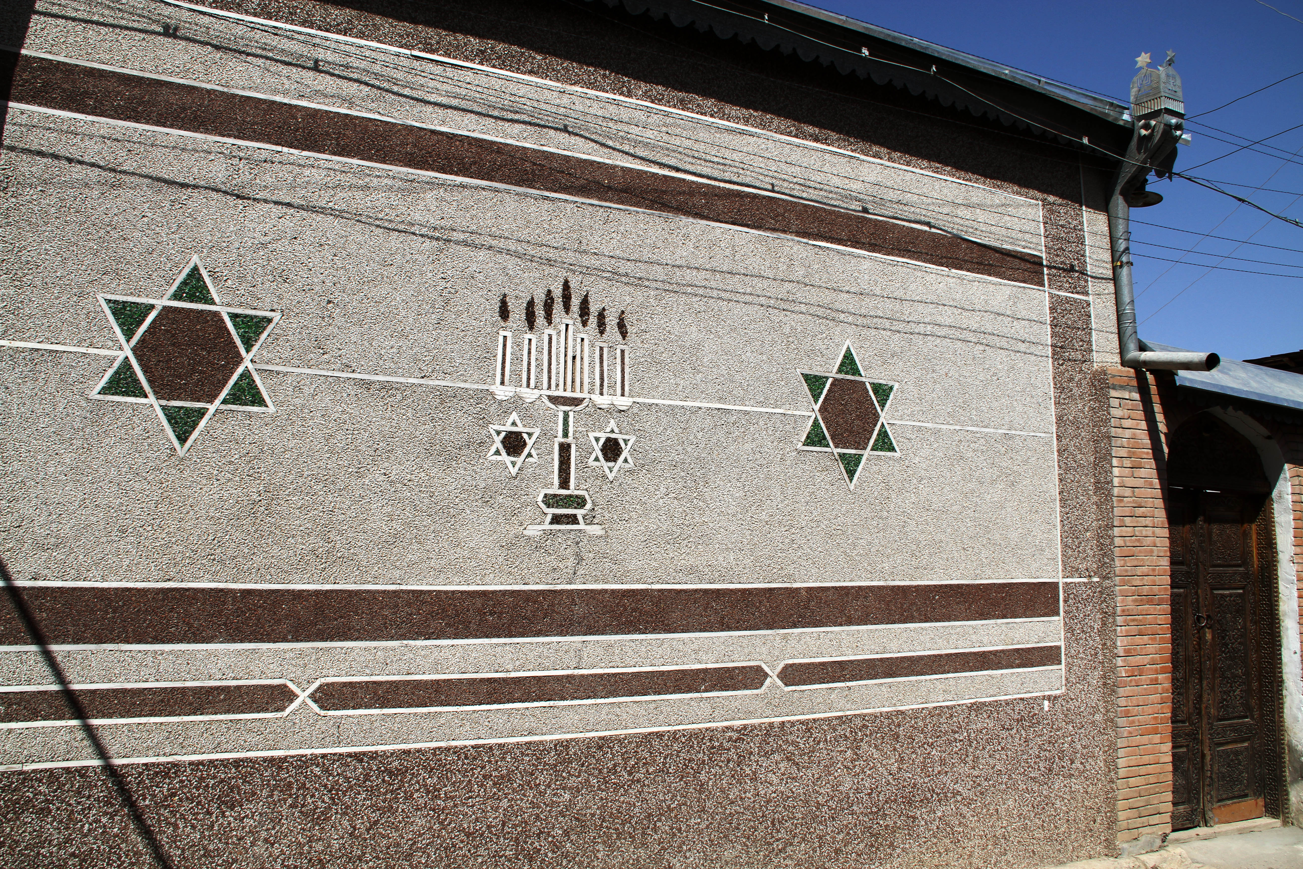 Synagogue in Samarkand